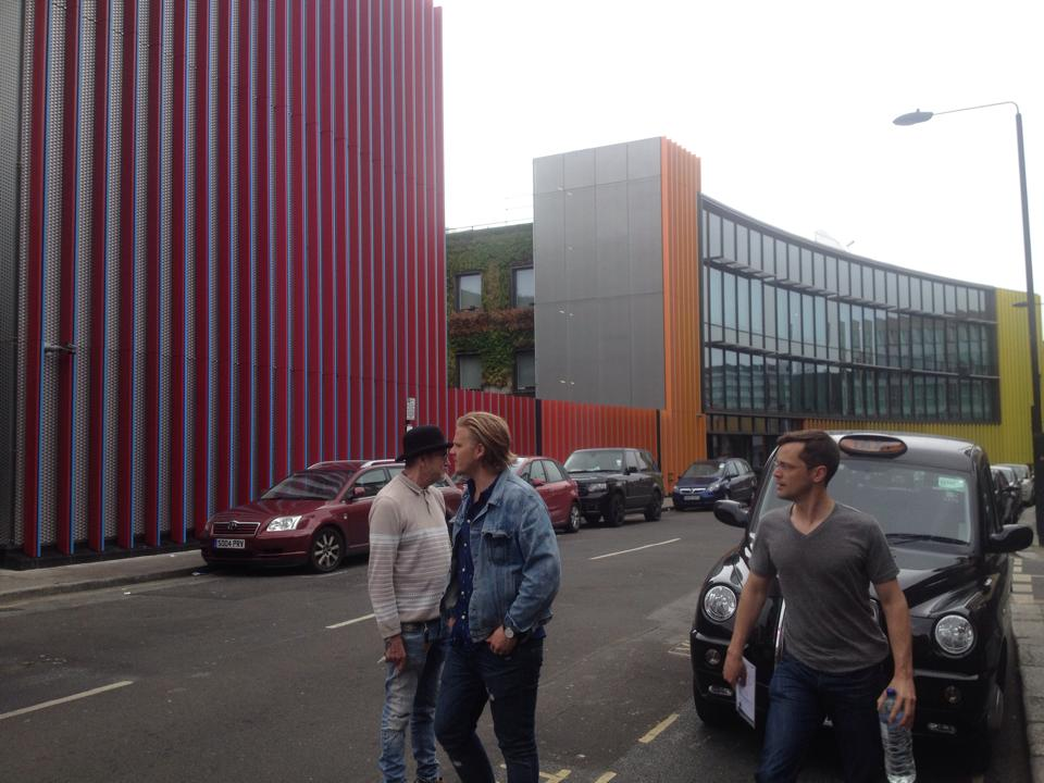 Viacom Europe HQ in Camden Lock.